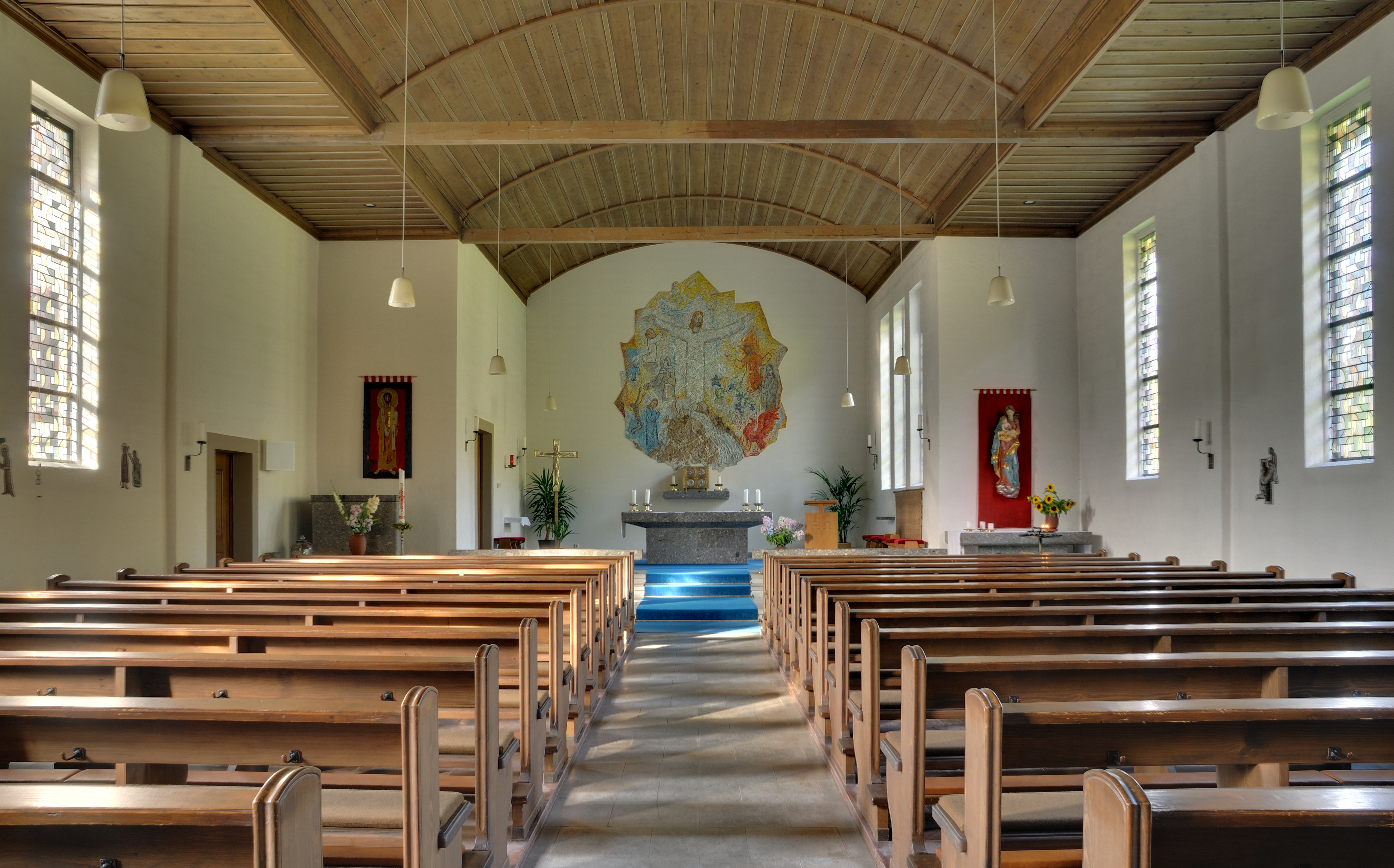 Muggenbrunn: Saint Cornelius Church